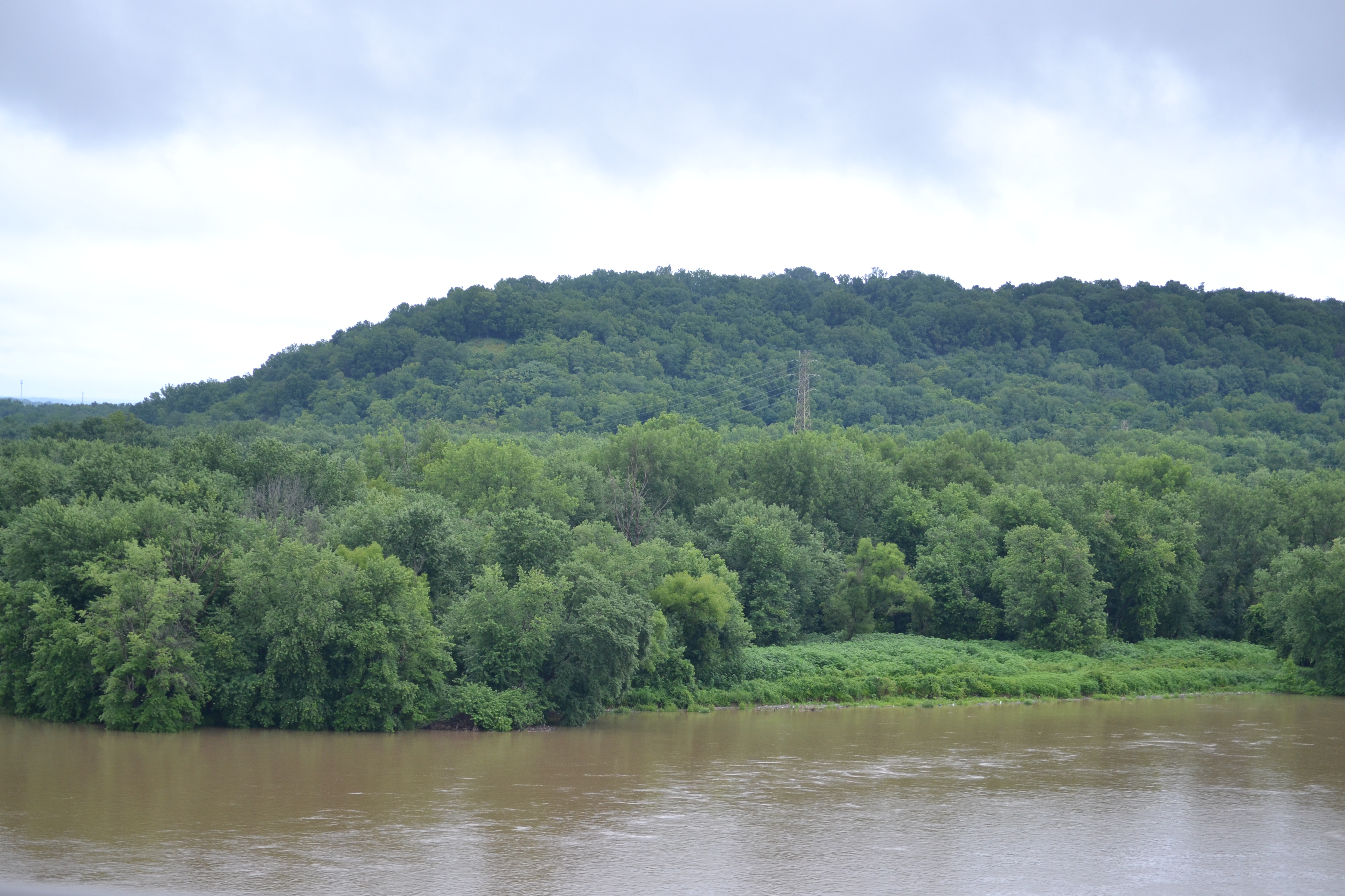 Southern side of Flannery Island, which sits at the confluence of the Ohio and Great Miami Rivers in the United States. The western half of the island is included in Lawrenceburg Township, Dearborn County, Indiana, while the eastern half is part of Miami Township, Hamilton County, Ohio. Owned by a nature conservancy, the island is uninhabited; the primary human presence on the island is a railroad bridge over the island's northern tip. Picture is taken from the Caroll Cropper Bridge.